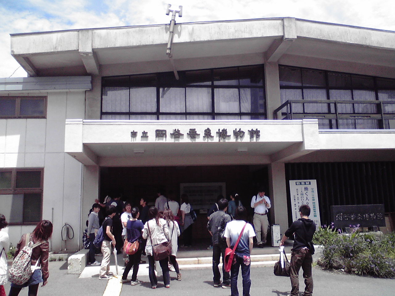 This is a museum about silk.